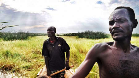 Turkana fishermen navigate the Kerio River delta on the southern margin of Lake Turkana.